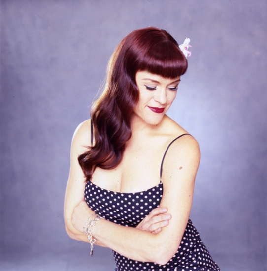 Christine Elise, American actress and photographer